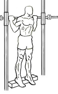 an exercise of dard